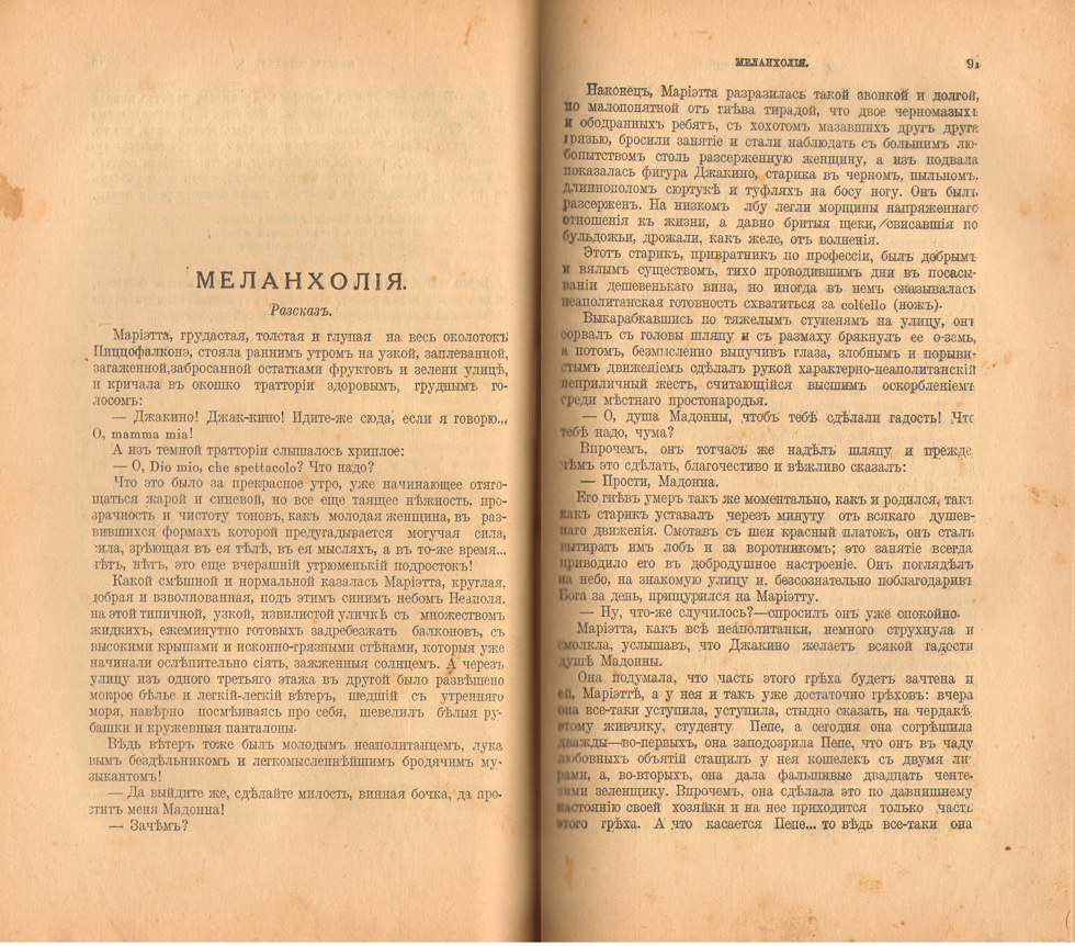 "Melancholy', the novell by A.K.Lozina-Lozinsky